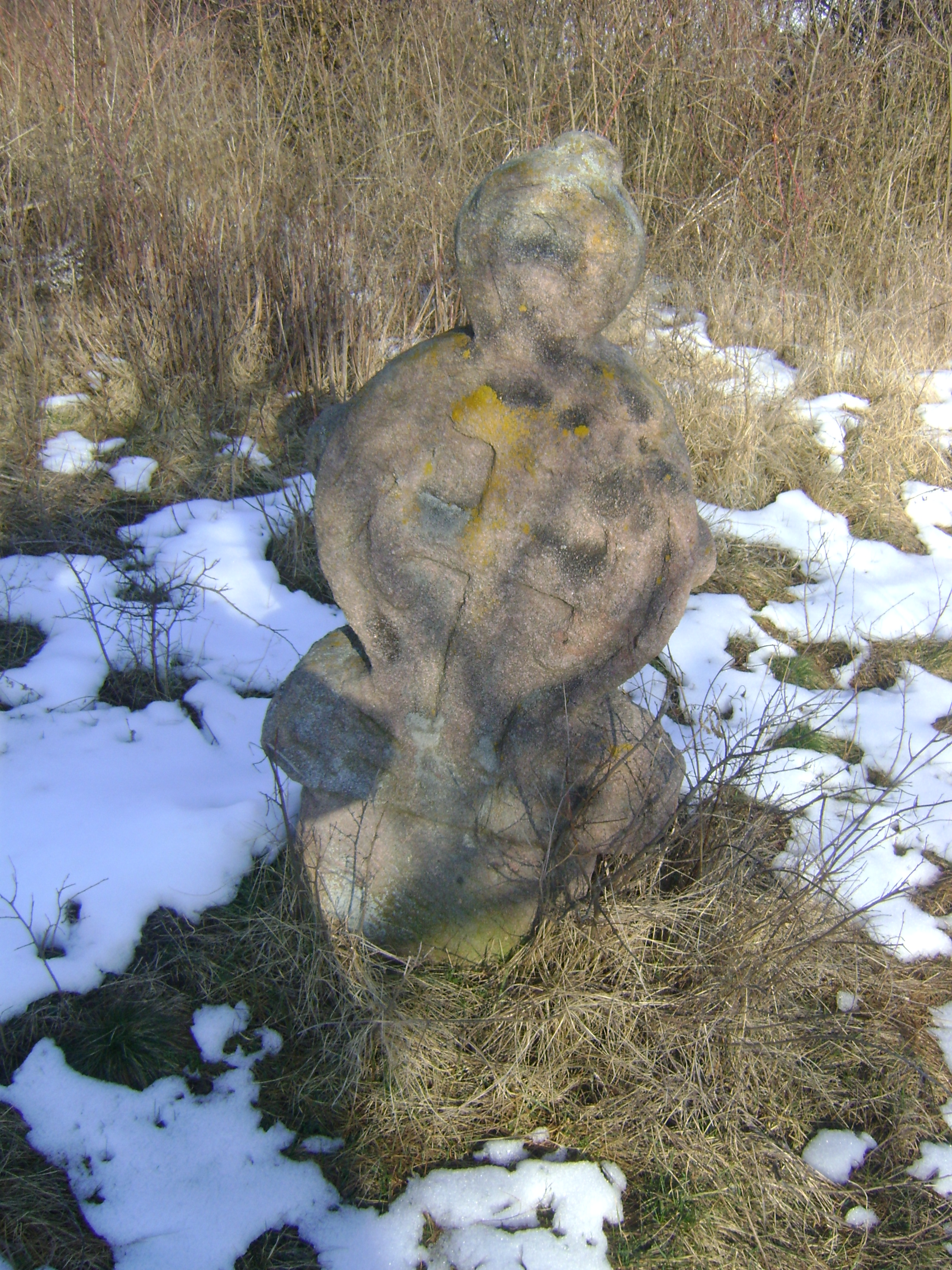 A cross in village Sopitsa, Bulgaria